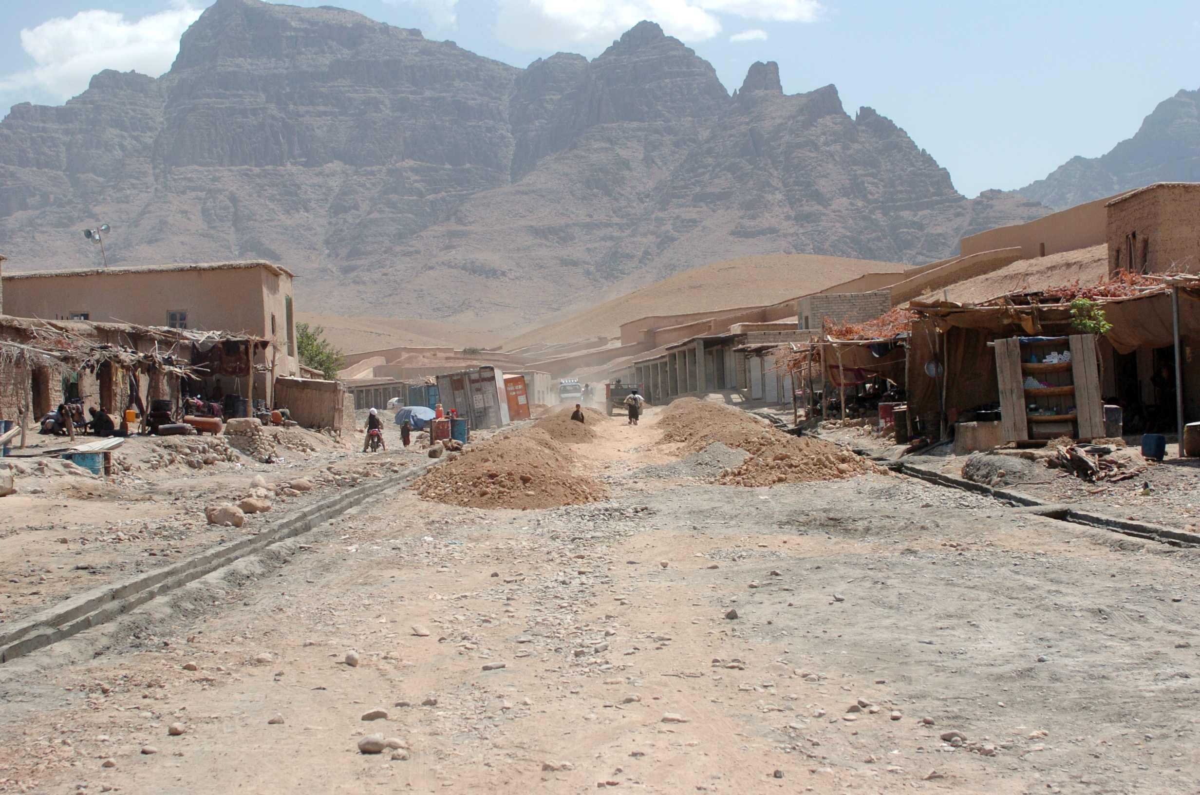 One of many civil-assistance projects in the town of Baghran, Afghanistan, this 700-meter road is being resurfaced at a cost of more than $2 million. It's one of the more visible civil-assistance projects in this area and will assist the villagers with easier access to their shopping district. Army photo